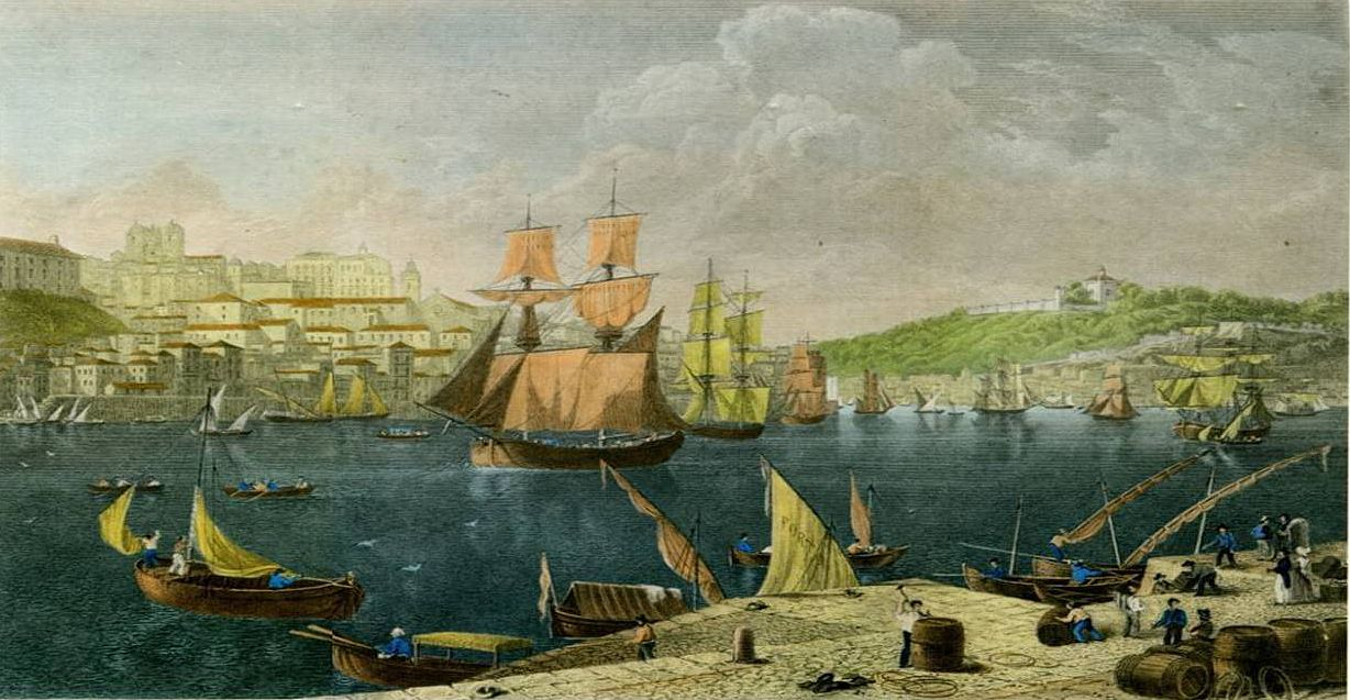 Oporto, from the Quay of Villa Nova. Painted by Lieut. Col. Robert Batty. Engraved by Robert Brandard (1805 – 1862), London.